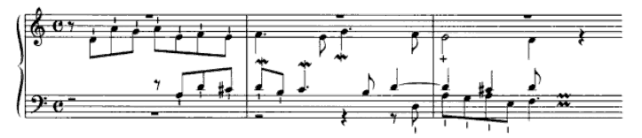 The opening of the chorale prelude Wir glauben all an einen Gott from Harmonische Seelenlust by Georg Friedrich Kauffmann